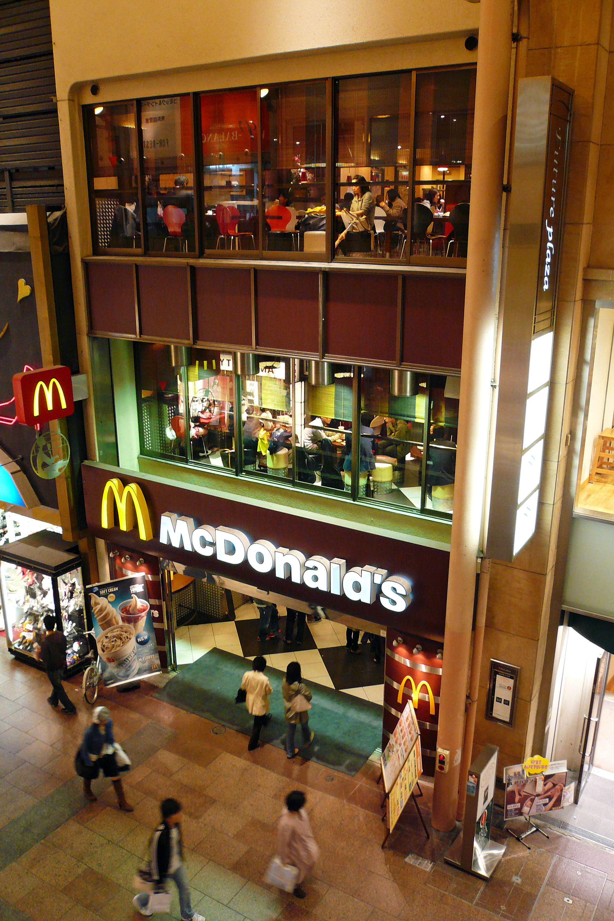 Sannomiya Center Street in Kobe, Hyogo prefecture, Japan